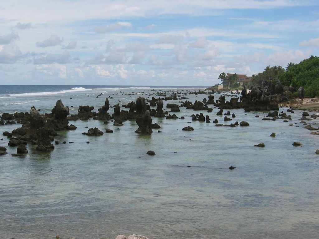 Coral reef on the beach in Nauru